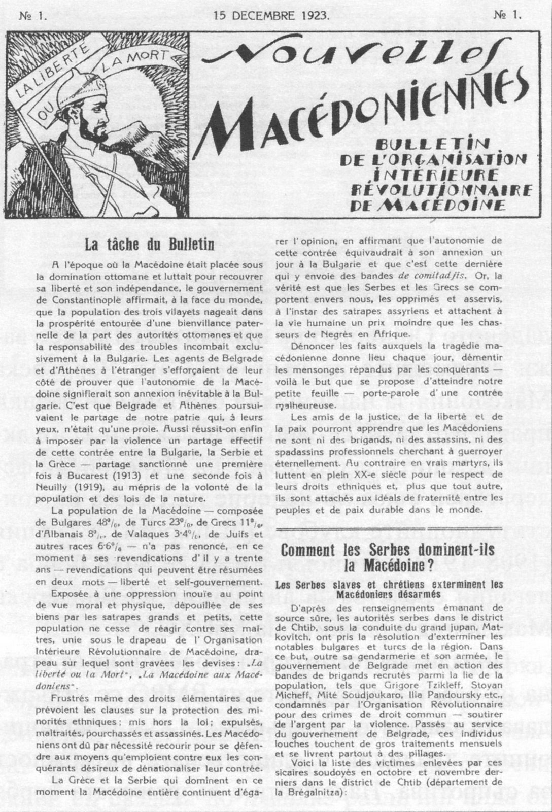 Page from IMRO`s newspaper "Nouvelles Macedonienne", stated "Population in Macedonia is Bulgarians 48%, Turks 23%, Greeks 11%, Albanians 8%, Vlahs 3-4%.."